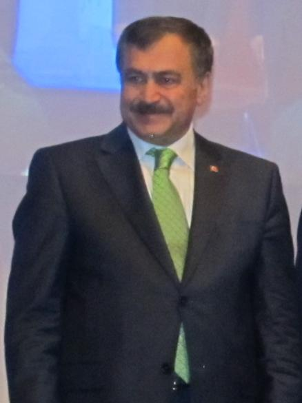 During the inaugural ceremony of the 1st World Irrigation Forum, H.E. Prof. Dr. Veysel Eroğlu, Turkish Minister of Forestry and Water Affairs presented the first World Irrigation and Drainage Prize 2013 to Prof. Victor A. Dukhovny (Uzbekistan)